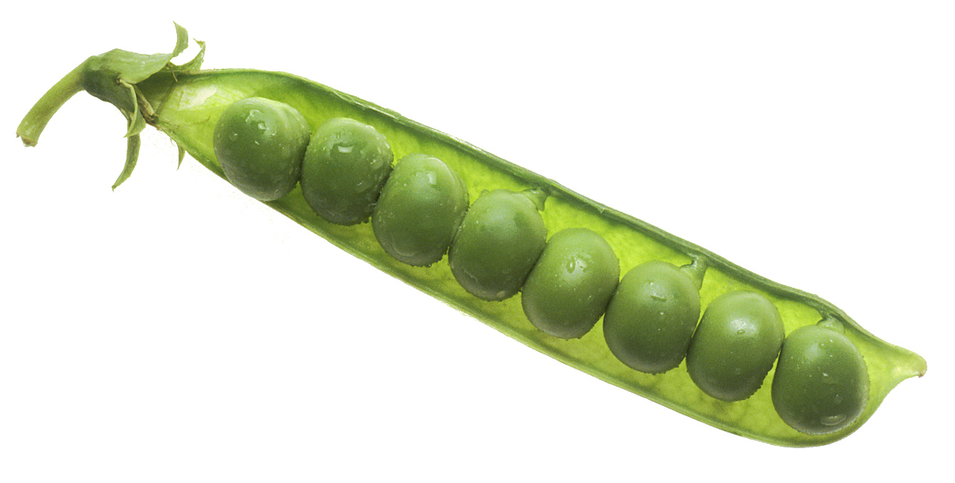 Peas in pod